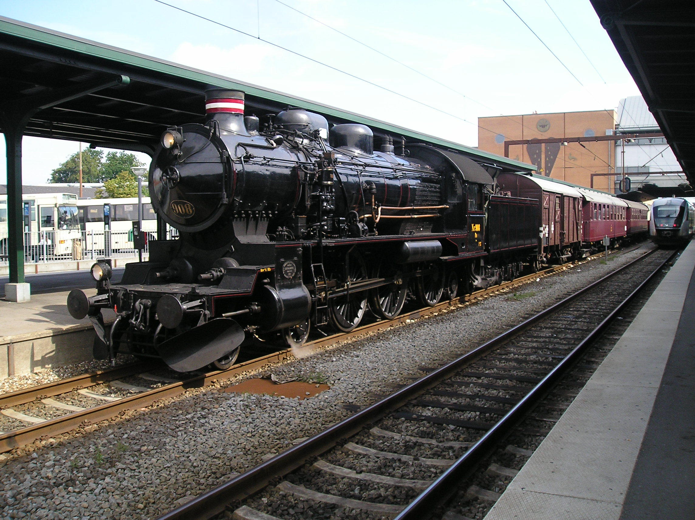 Danish steam locomotive DSB PR 908 with restored train in Odense.